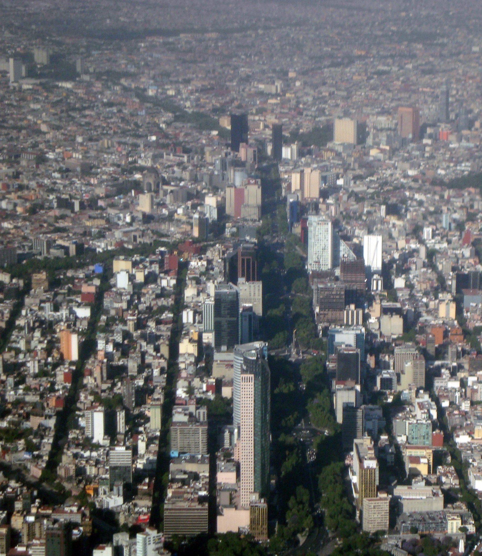 Aerial view of Paseo de la Reforma in Mexico City